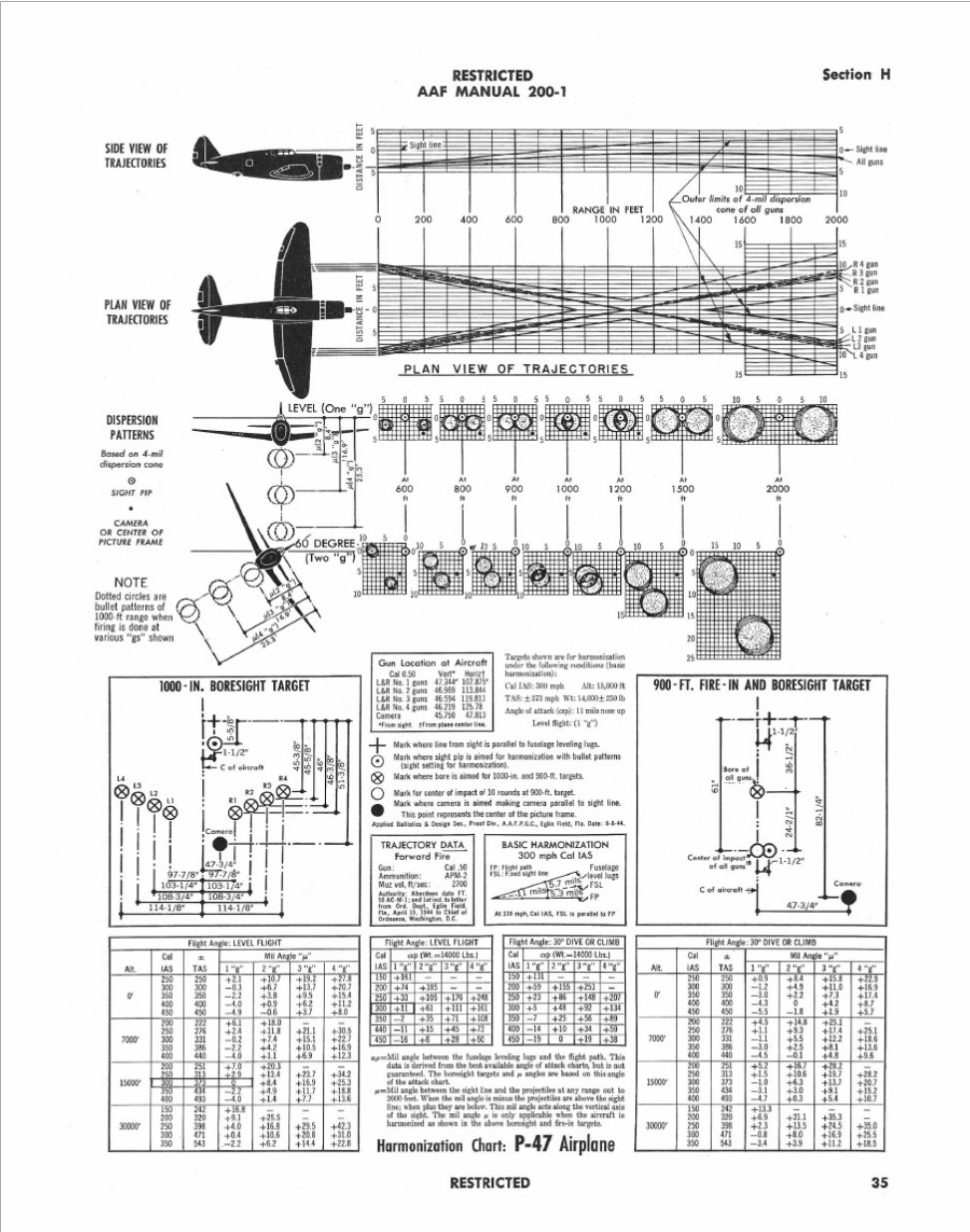 Page 35 of United States Army Air Forces "Fighter Gun Harmonization" manual AAF 200-1, published 30 January 1945. This page shows one of two gun harmonization schemes for the P-47 Thunderbolt fighter aircraft.